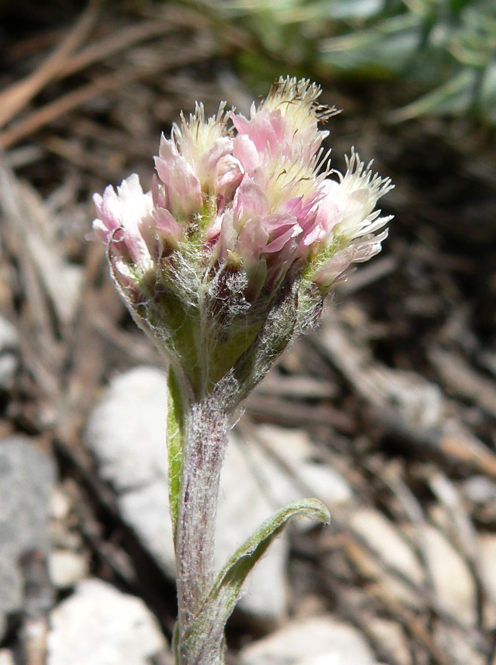 Antennaria rosea in Lee Canyon on the Bristlecone Trail near the trailhead, Spring Mountains, southern Nevada (elev. about 2700 m)